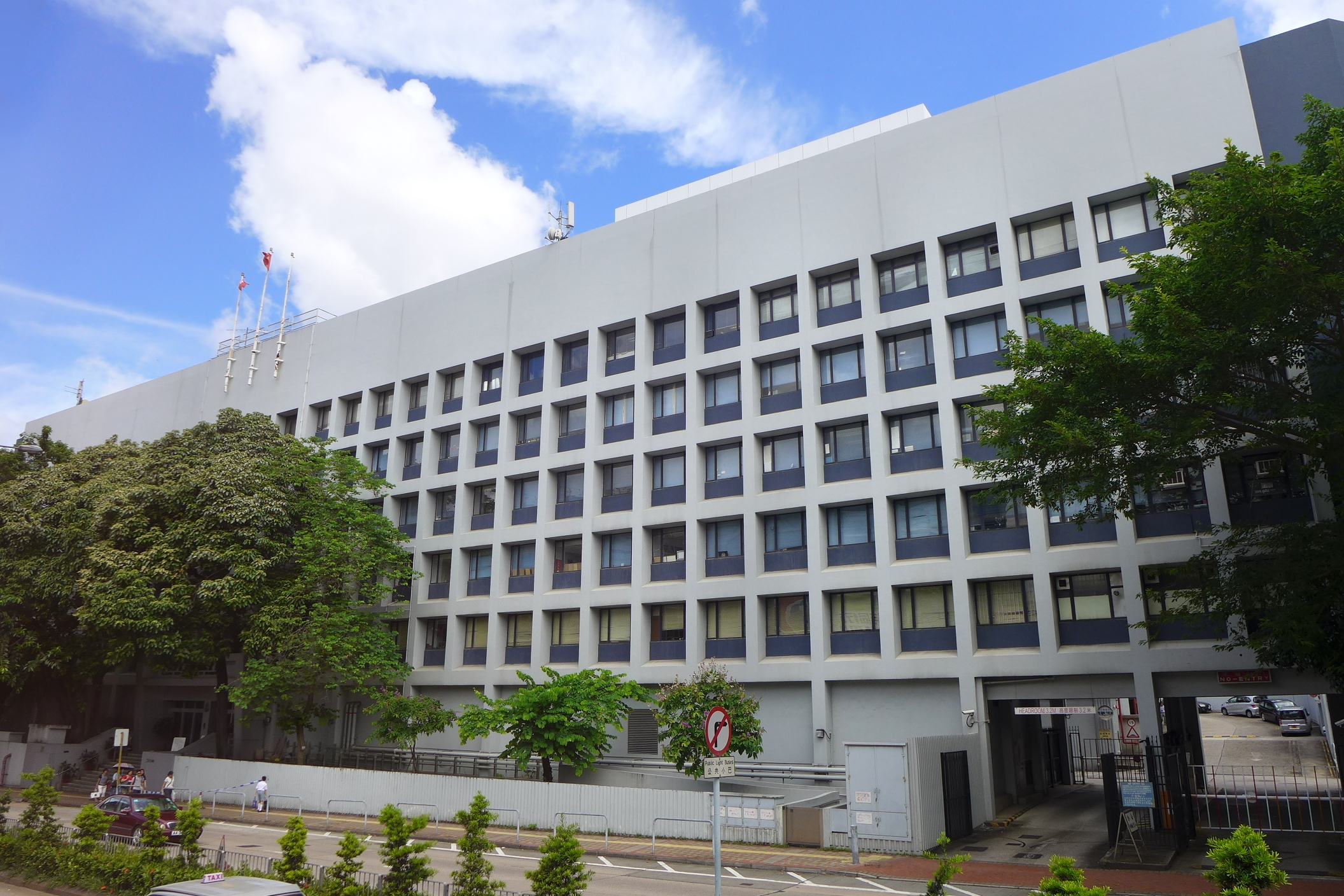 Kowloon District Police Headquarters